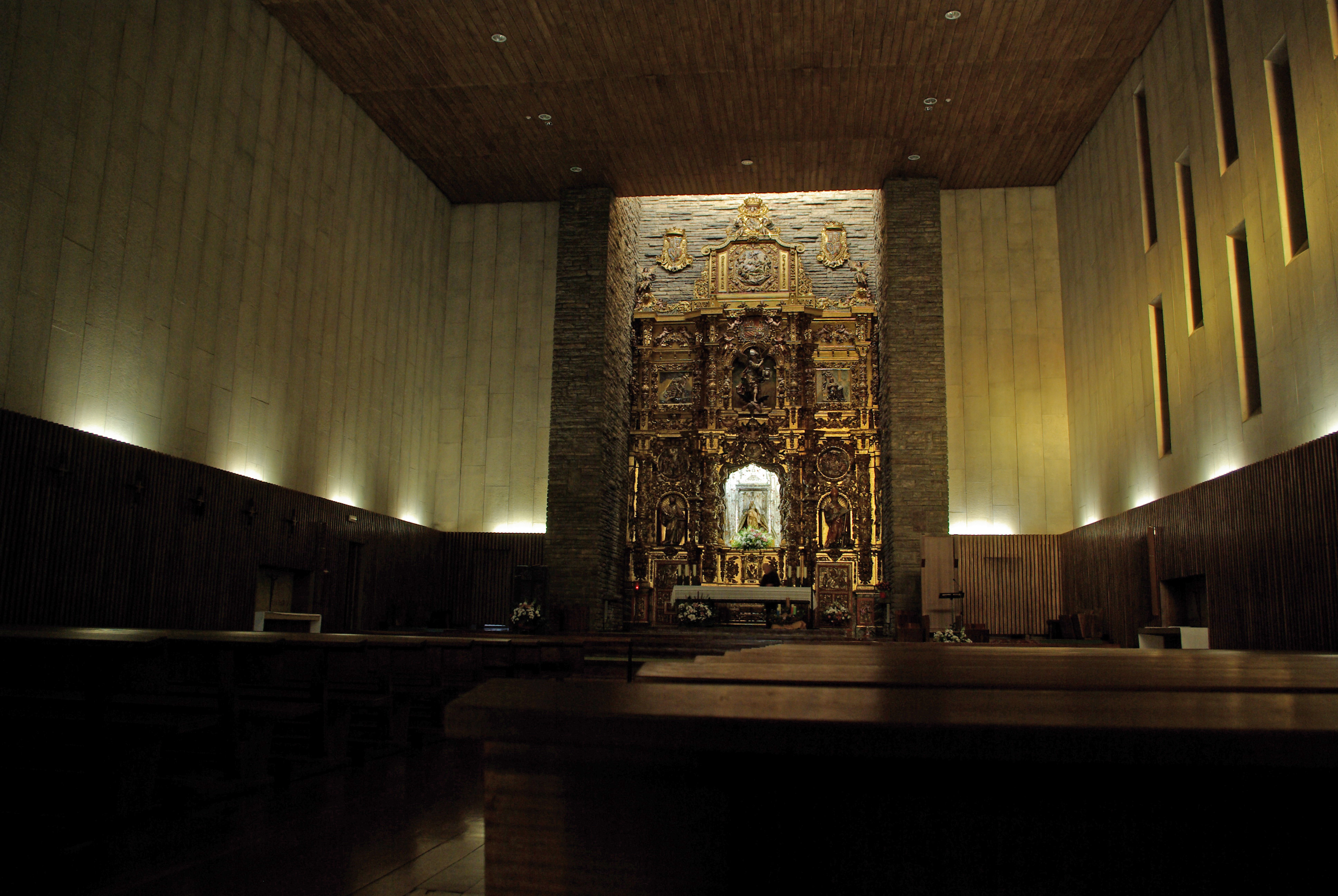 Inside the sanctuary of La Virgen del Camino, Valverde de la Virgen (León, Spain) in the Way of Saint James.